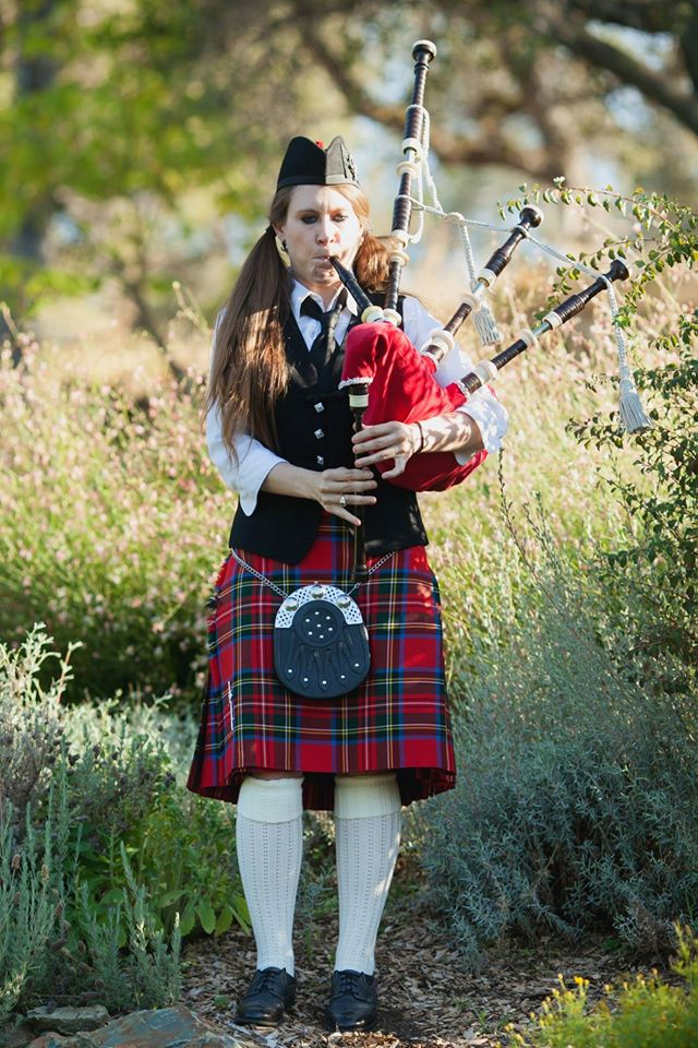 Bagpipes